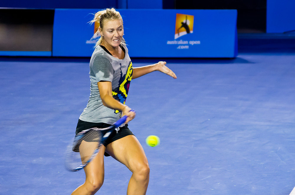 Maria Sharapova at the 2012 Australian Open